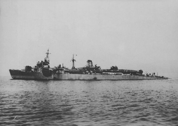 HIJMS Landing Ship No.5 w/ Kō-hyōteki No.69